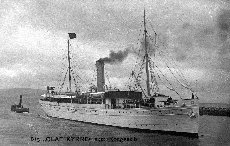 Norwegian passengership DS Olaf Kyrre, built in 1886. This image is taken when she served as royal yacht in 1908. This ship sailed in the coastal express service (Hurtigruten) between 1895 and 1903.